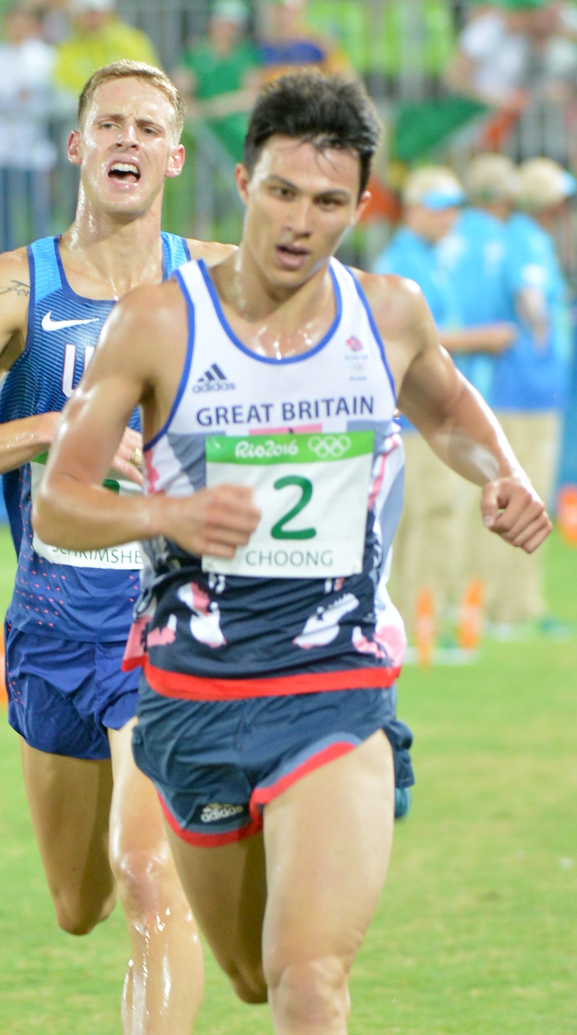 Joe Choong (Great Britain) and Nathan Schrimsher (United States) Men's Modern Pentathlon event Aug. 20 at the Rio Olympic Games in Rio de Janeiro. U.S. Army photo by Tim Hipps, IMCOM Public Affairs #SoldierOlympians #ArmyOlympians #ArmyTeam #TeamUSA #RoadToRio #ArmyStrong #GoArmy #WCAP #ArmyWCAP